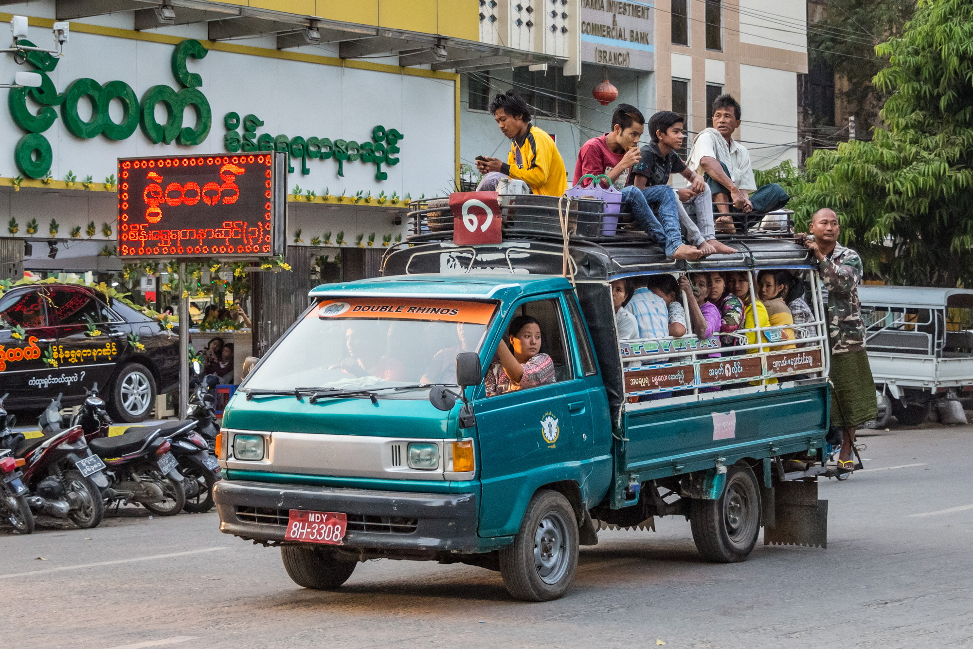 Truck-bus in Mandalay, Myanmar